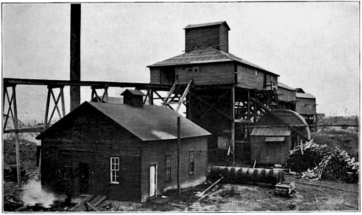 Original caption: "The upper works of the Relay Mine No. 3, Centerville, IA. The house in the foreground contains the hoisting engines. The shaft is in the center. The drum-like structure on the right is the fan which ventilates the mine. The trestle running to the left is for carrying away the refuse. The end of the dump pile shows just beyond the trestle. The weighing and storage sheds are beyond the shaft."